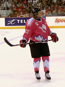 Hayley Wickenheiser. 2007 IIHF World Women’s Hockey Championship, Winnipeg Manitoba Canada, USA versus Canada.